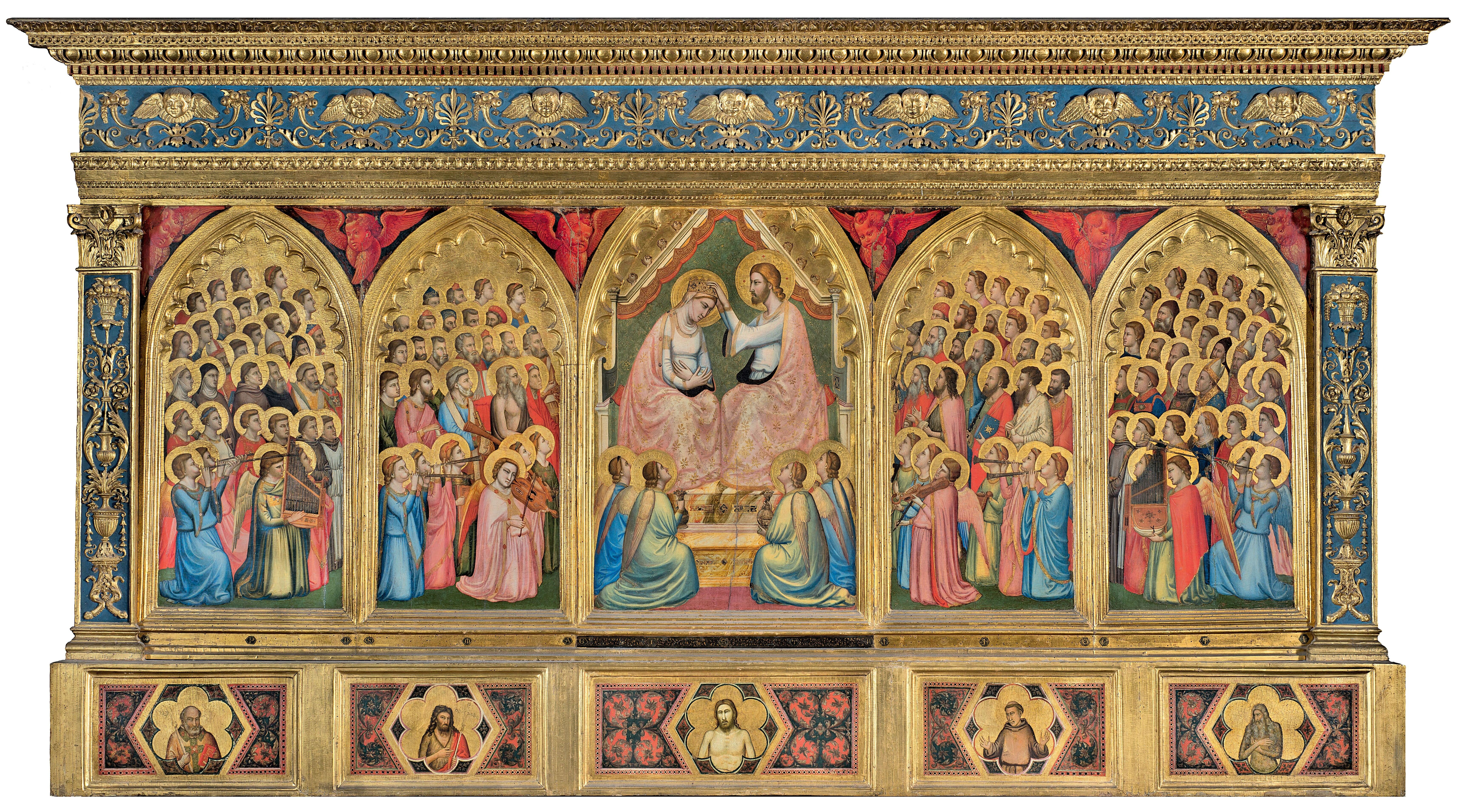 Baroncelli_Polyptych__c.1334_Baroncelli_Chapel,_Santa_Croce,_Florence_185x323cm